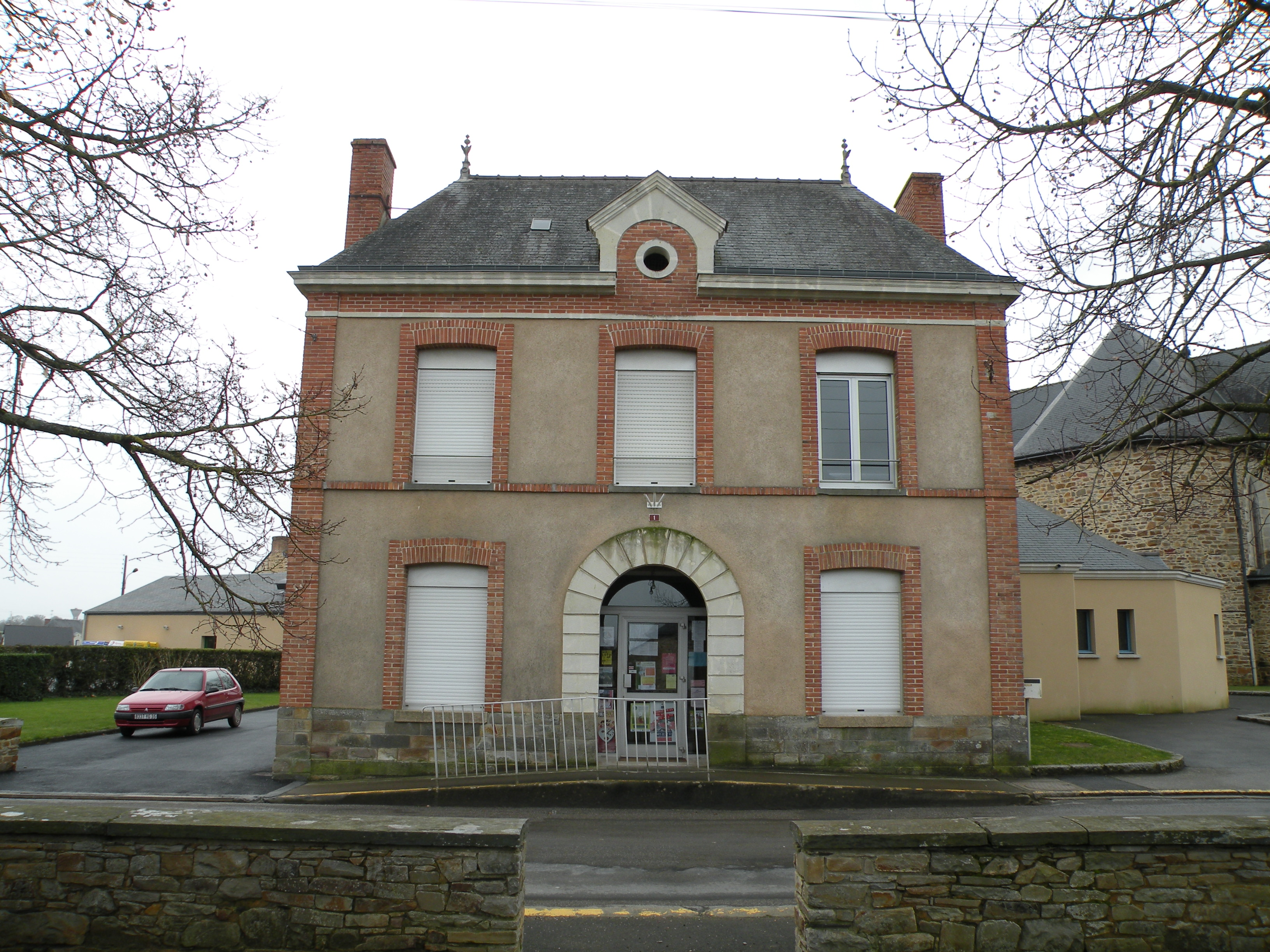 Former town hall of La Dominelais